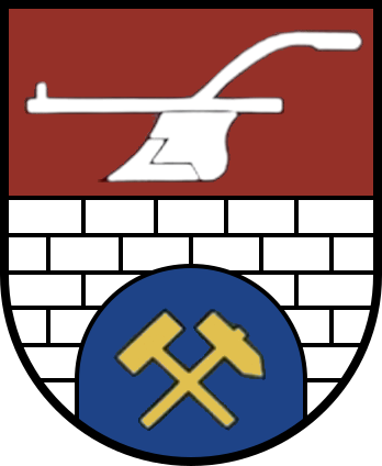 Coat of arms of Giersleben